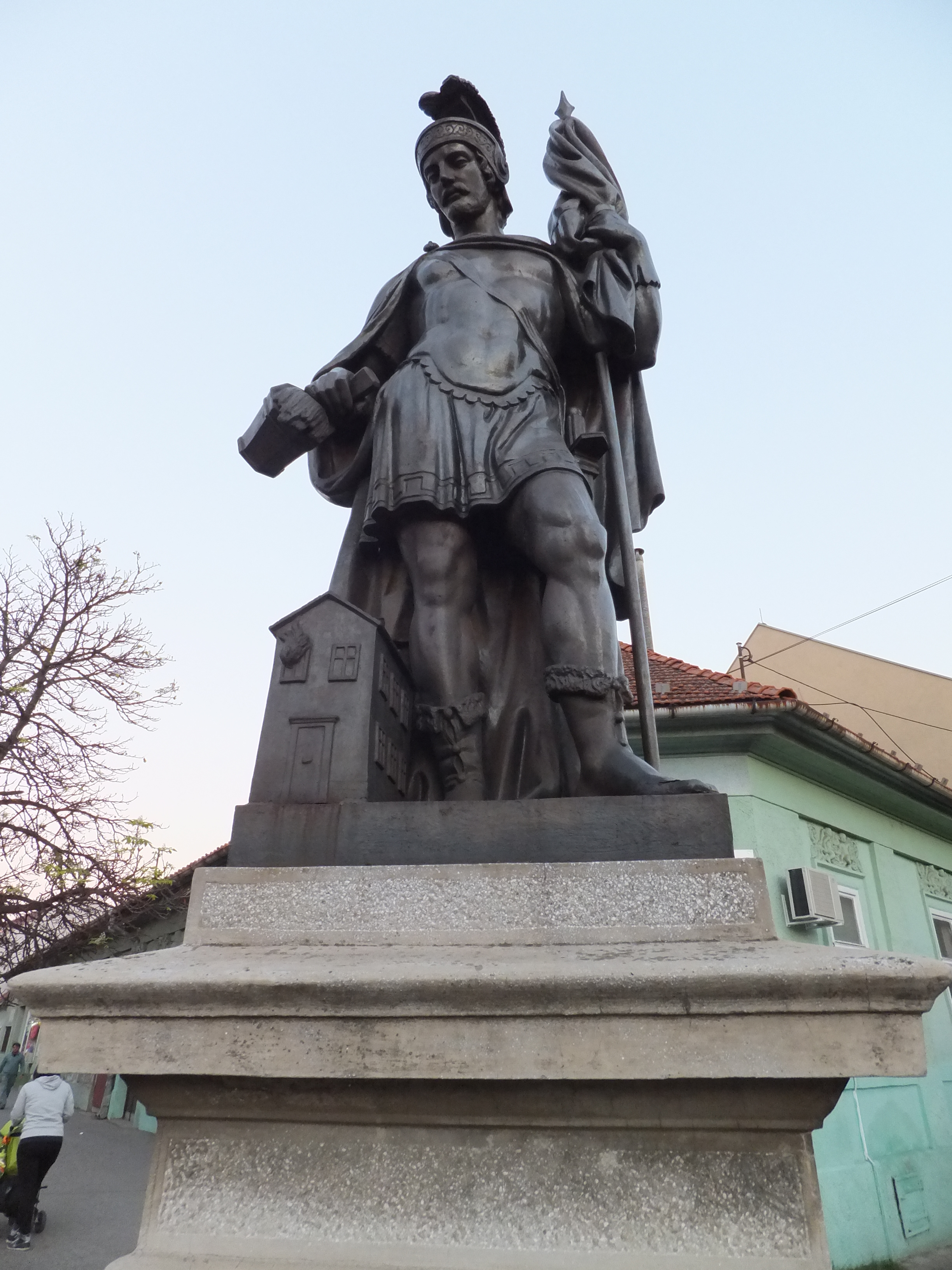 Saint Florian statue in Pancevo.